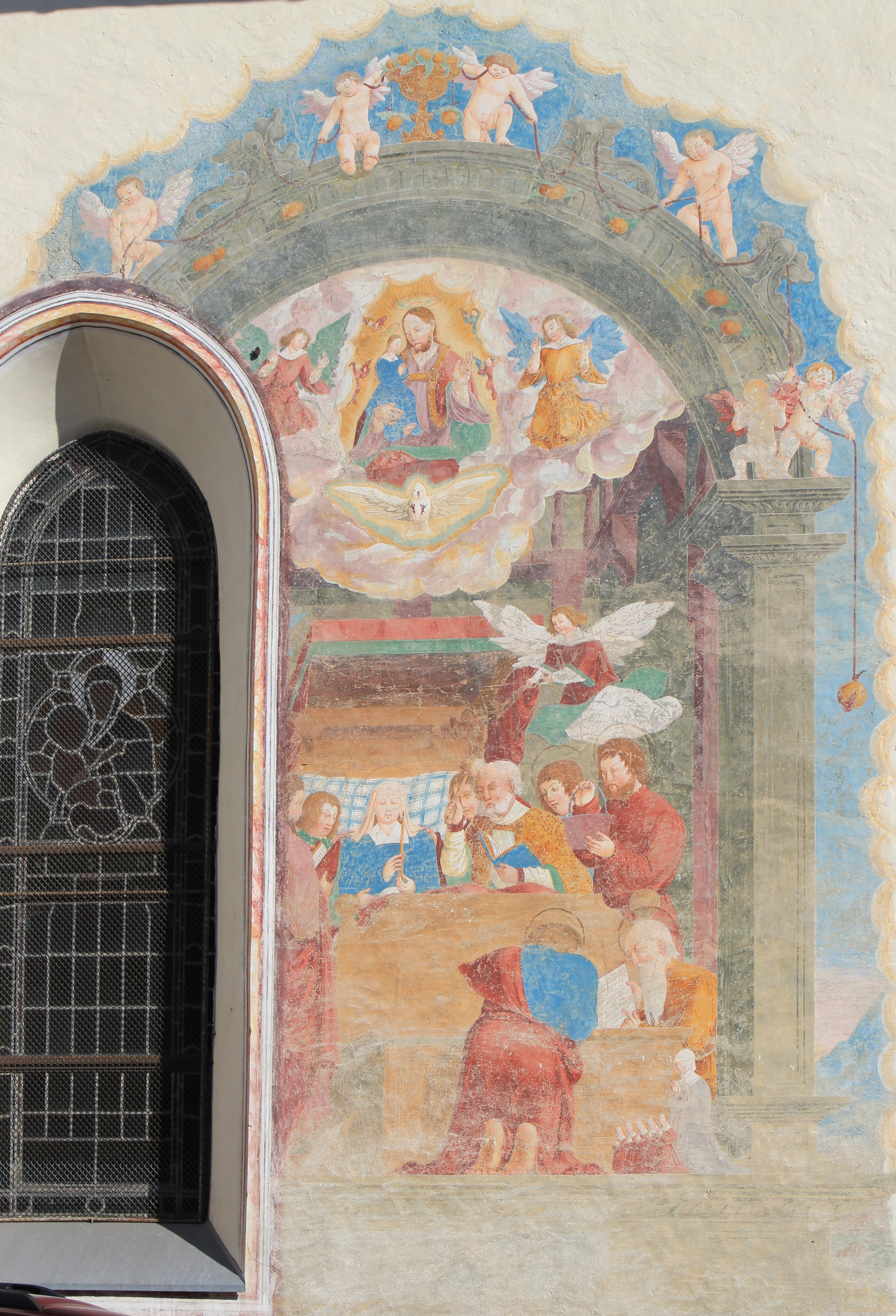 Church of Mauthen in the community of Kötschach-Mauthen - Death of Mary